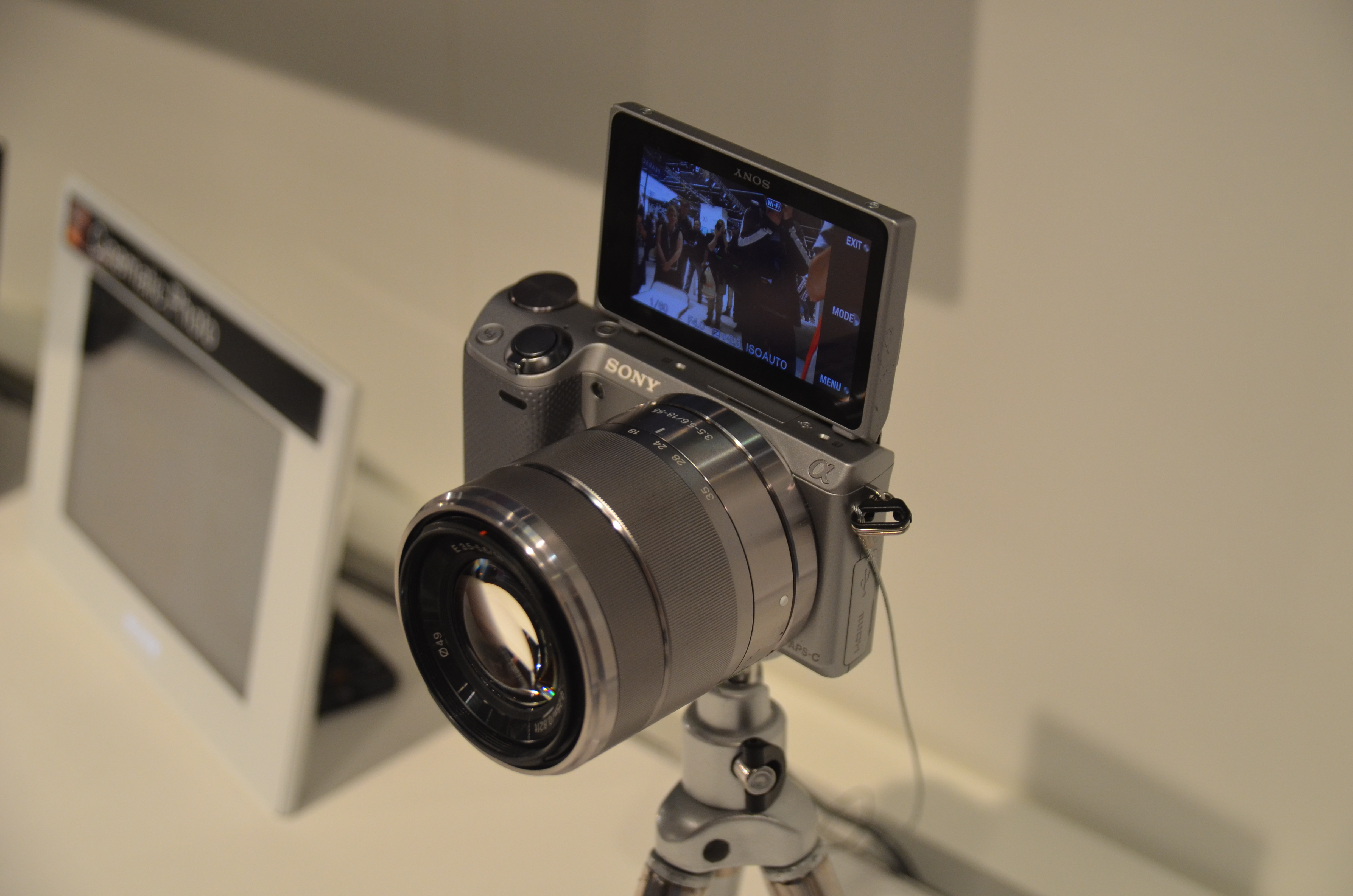 Sony NEX-5R at Photokina 2012.